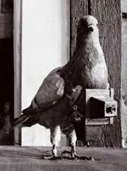 Julius Neubronner's tiny cameras strapped to a homing pigeon.